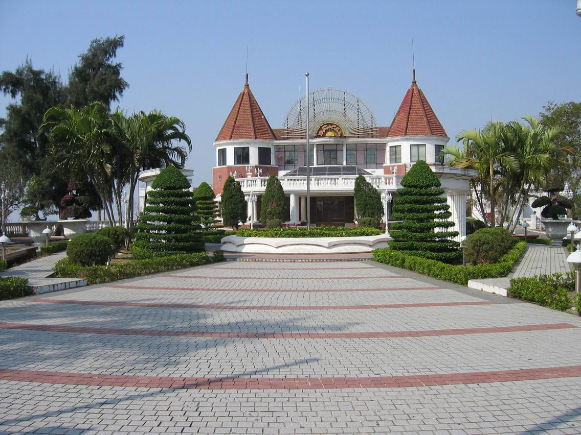 The Do Son Casino located in the south of the Peninsula